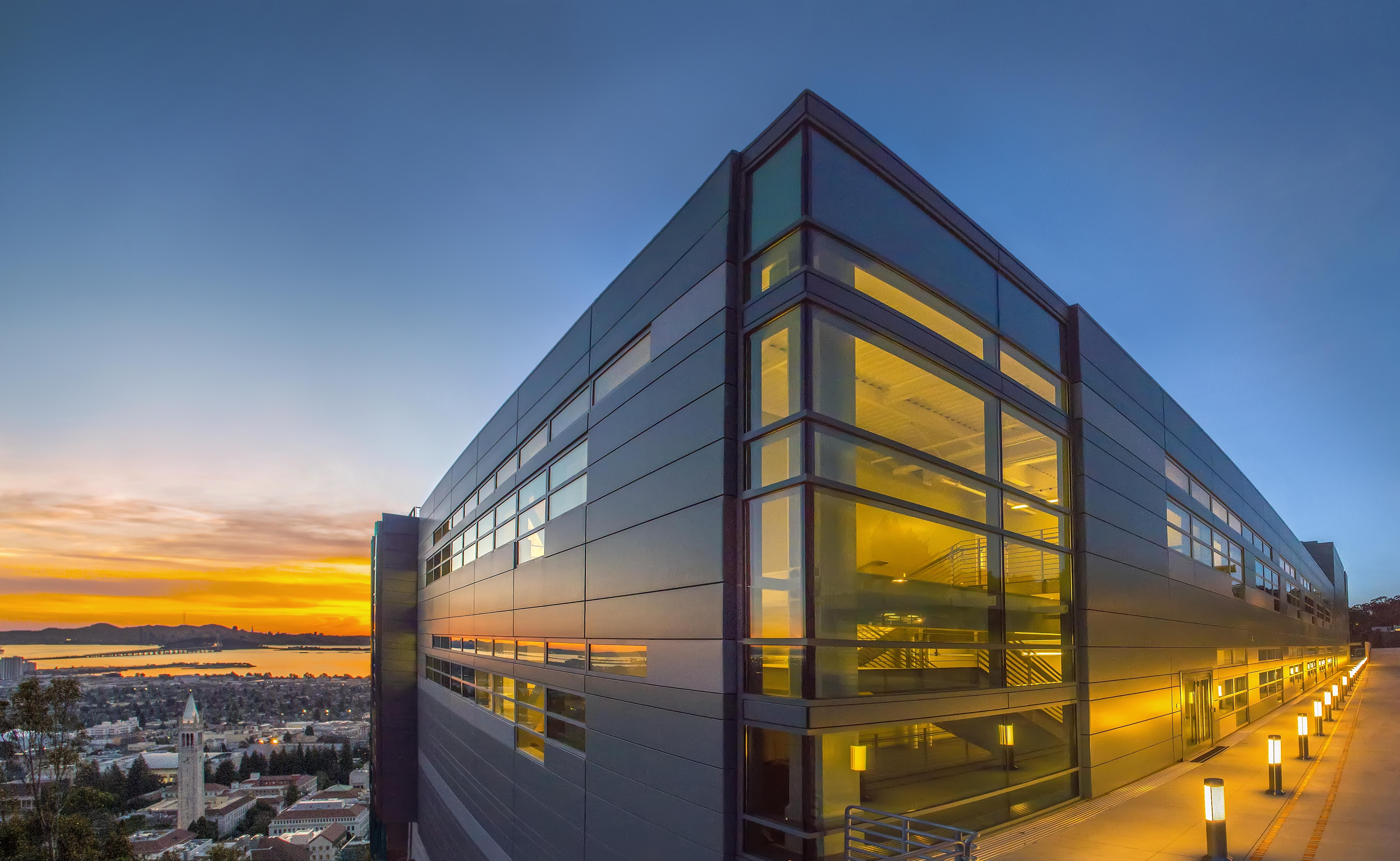 BERKELEY LAB'S WANG HALL (COMPUTATIONAL RESEARCH THEORY FACILITY/ NATIONAL ENERGY RESEARCH SCIENTIFIC COMPUTING CENTER ) EXTERIOR PHOTOS AT SUNSET. For more information or additional images, please contact 202-586-5251.